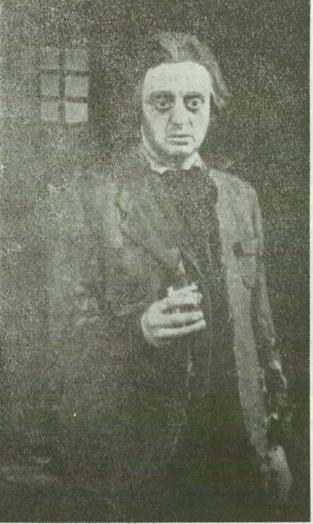 Romanian actor Gheorghe Harag